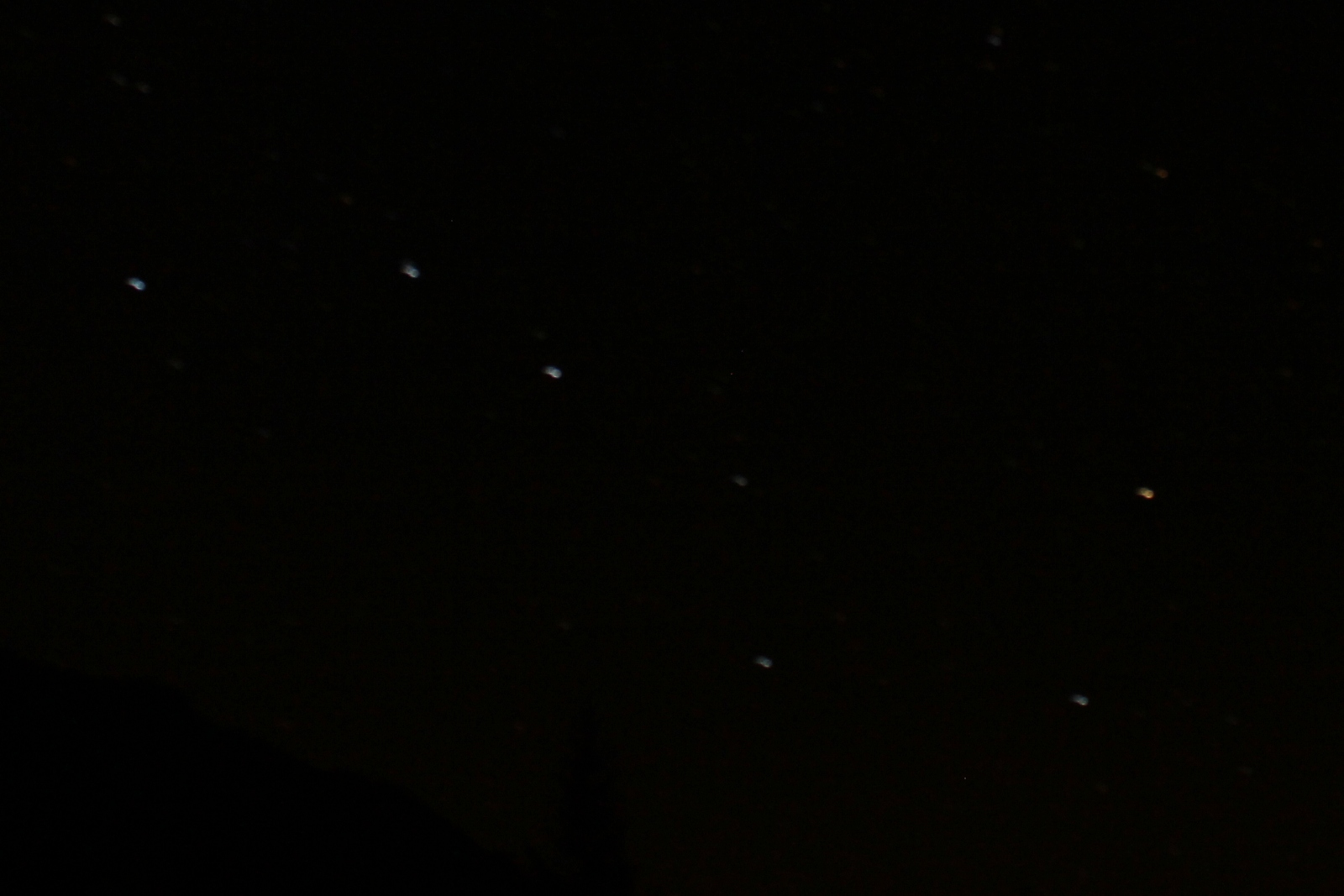 Ursa Major on a photo taken in the Swiss Alps in Grisons